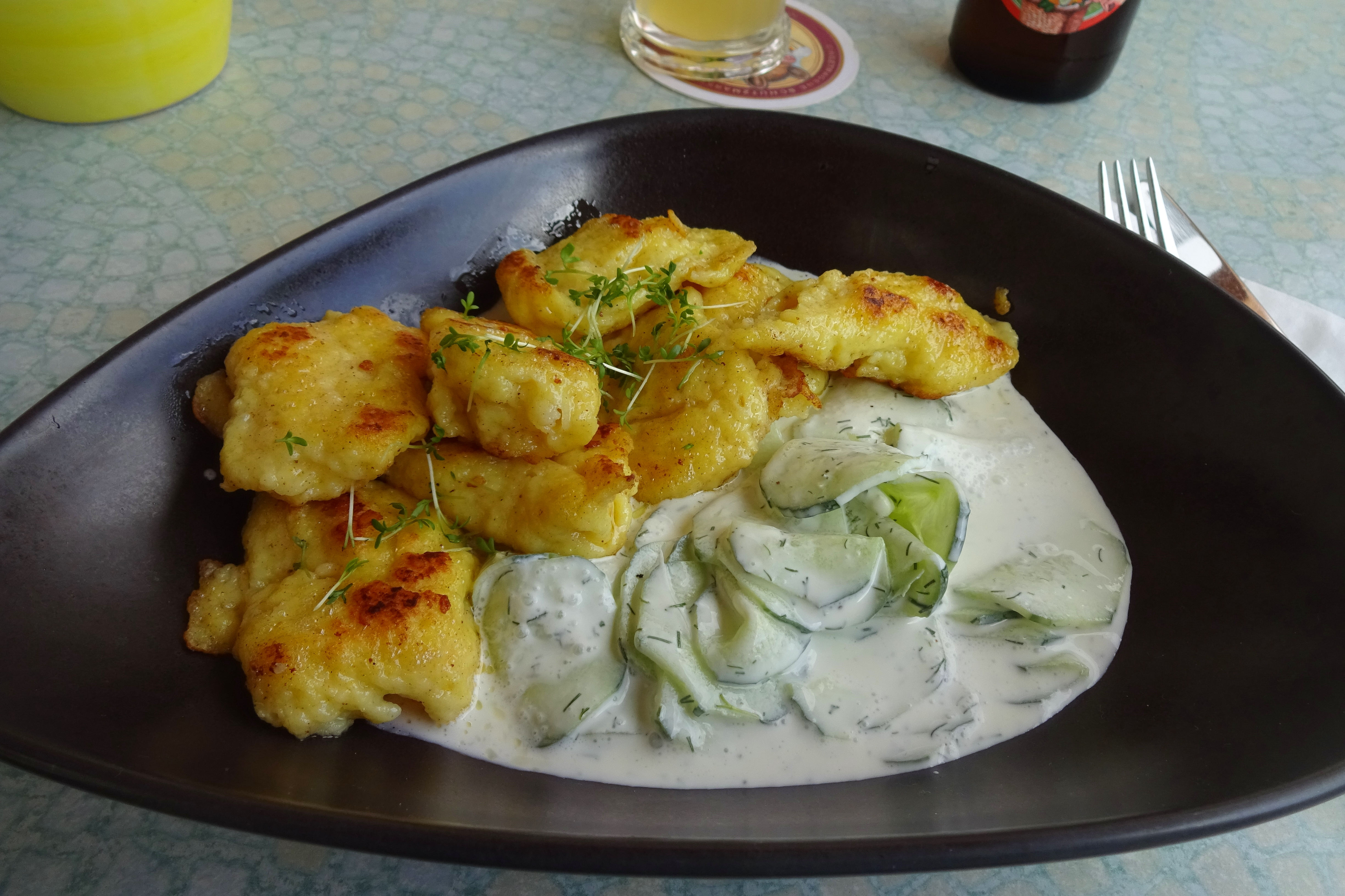 Fränkishe flour dumplings (Mahlklüss) with cucumber salad, The dough made of flour, eggs and some salt. The dumplings are boiled in salted water and then fried in a pan. Served with cucumber salad with cream dressing. Photographed in the restaurant Zum Weißen Rössl in Burkardroth-Stralsbach.